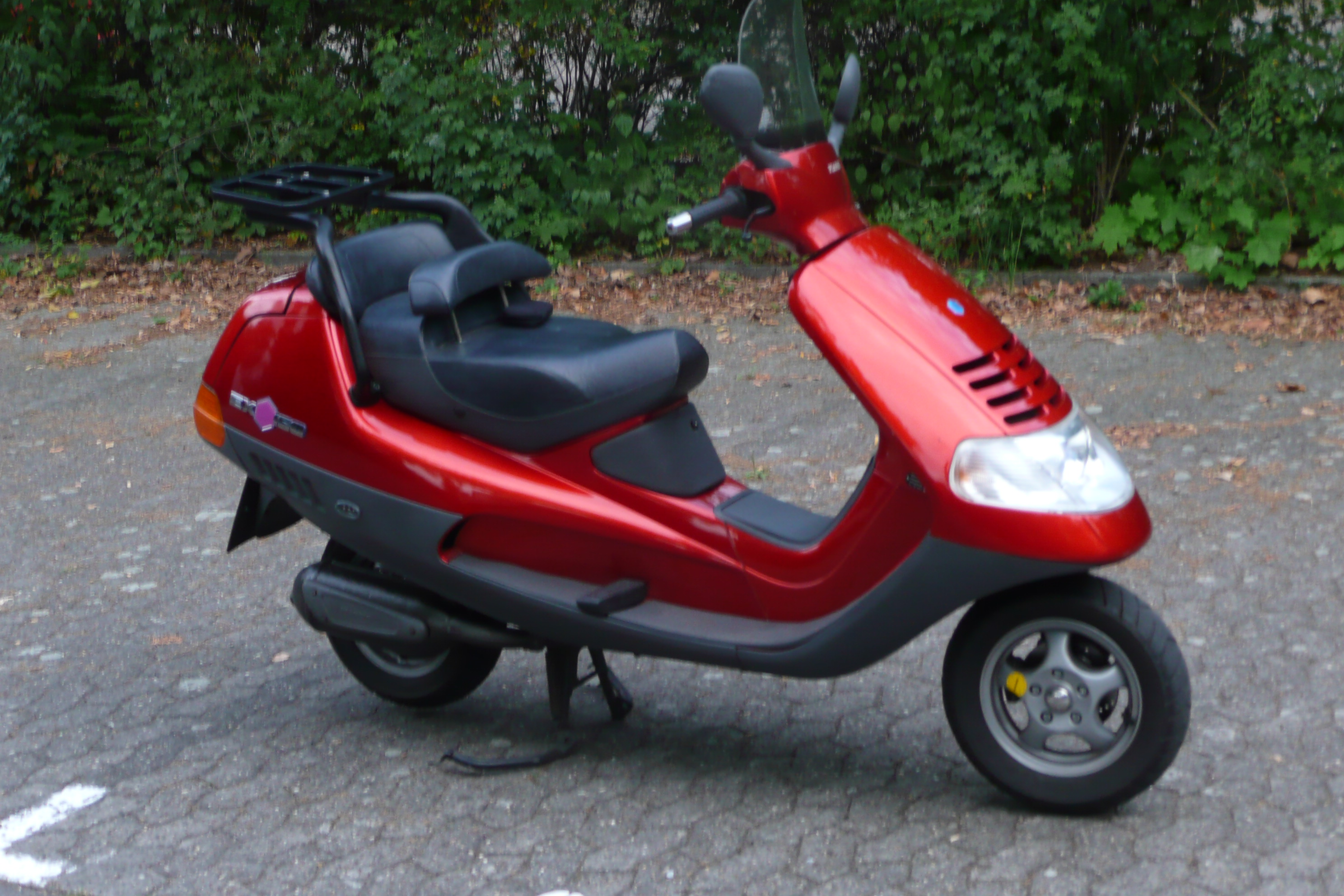 Piaggio Hexagon scooter 150 ccm